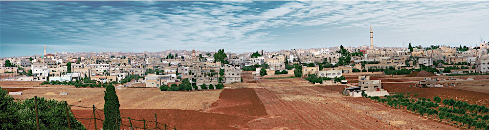 Photograph of the Jordanian town of Huwwarah, looking east to west.